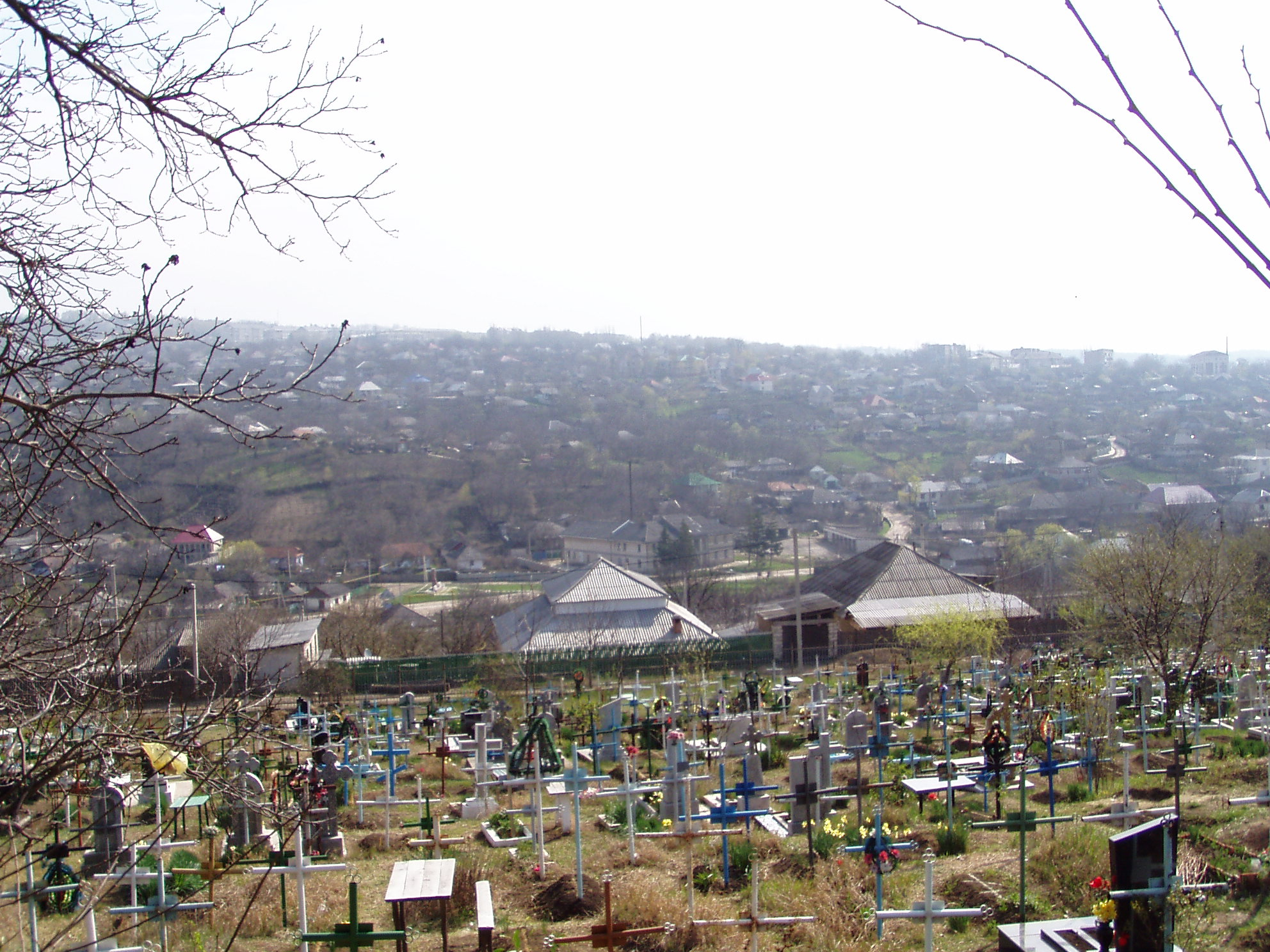 Cemetery in Călăraşi, Moldova.